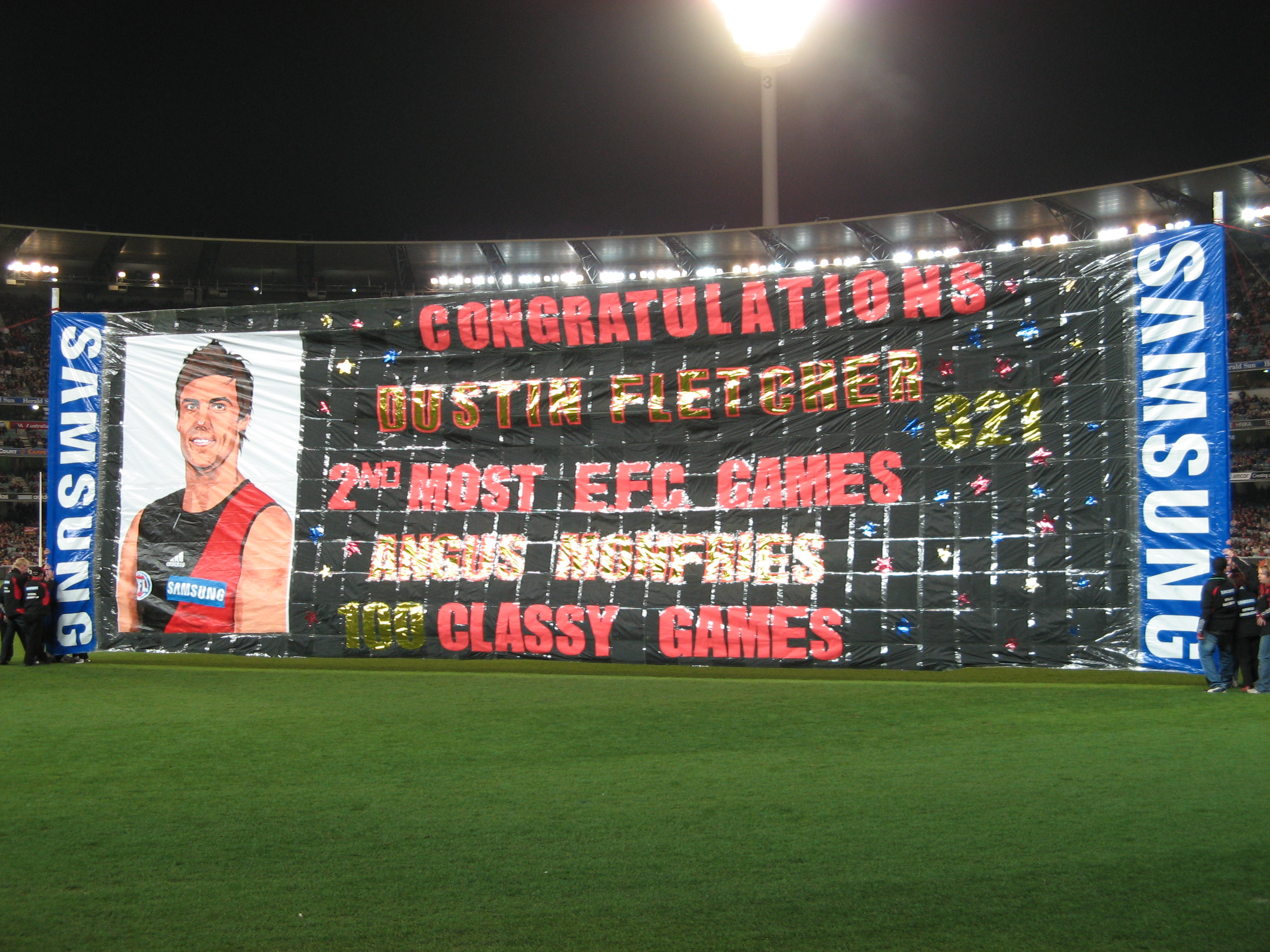 The other side of the Essendon bannerring Dustin Fletcher.